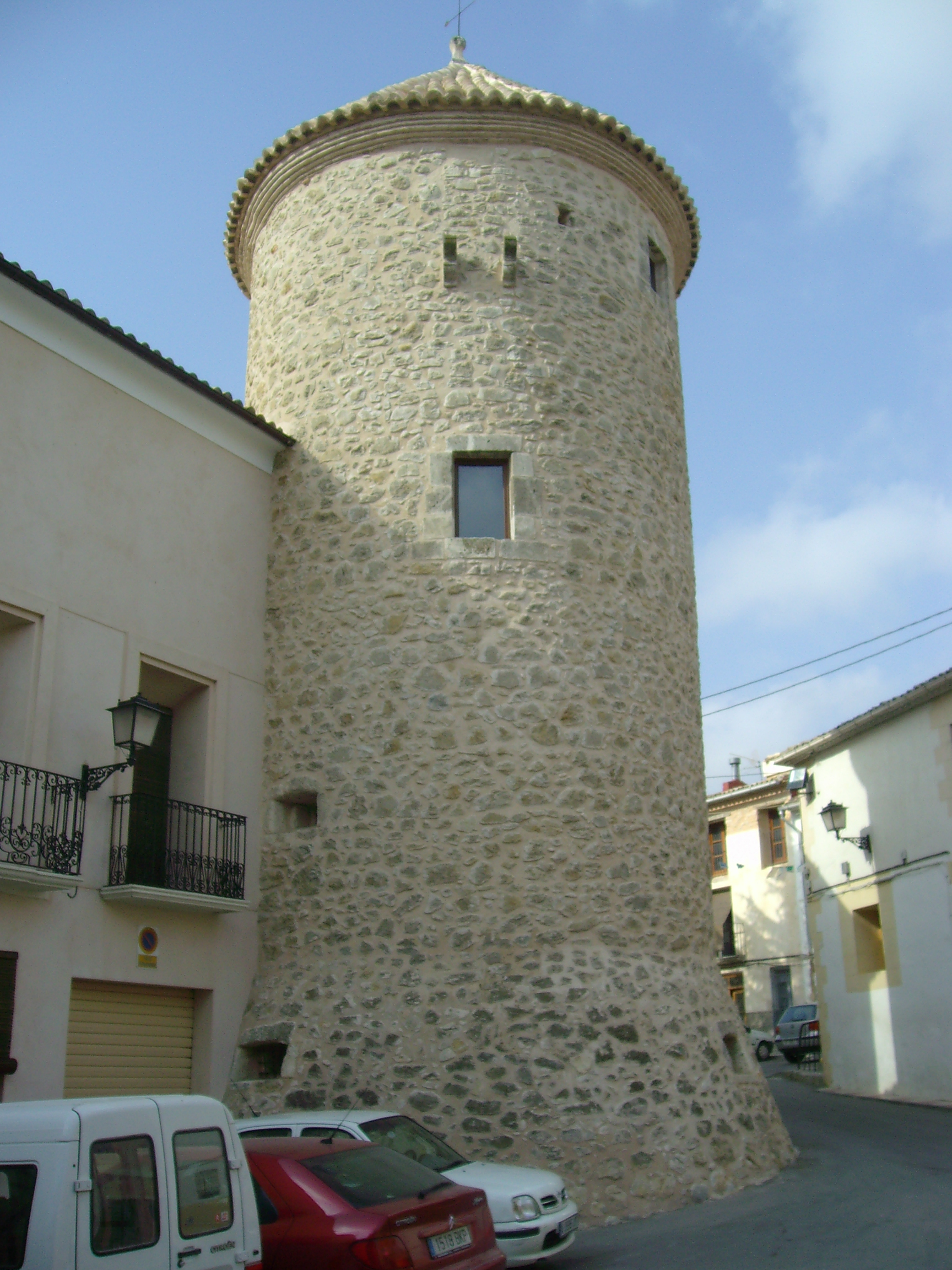 Alcoleja Tower